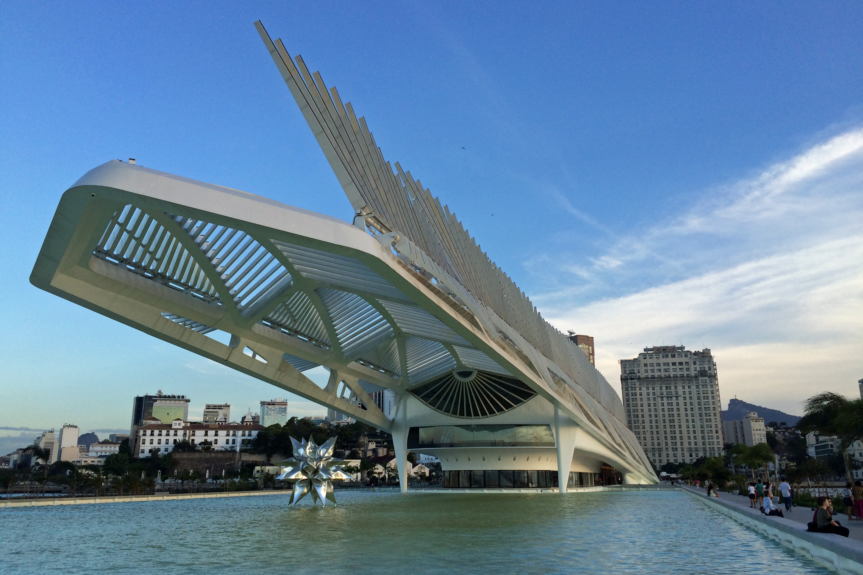 Museu do Amanhã, Porto Maravilha, Rio de Janeiro. Shown the solar panels installed in the upper structure. These elements move during the day like wings following the sun path. There are almost 5,500 solar panels in the entire building